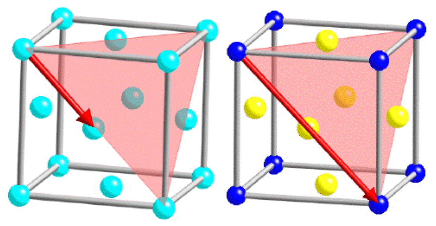 Atomic structure of γ phase (left) and γ’ phase (right) for a superalloy